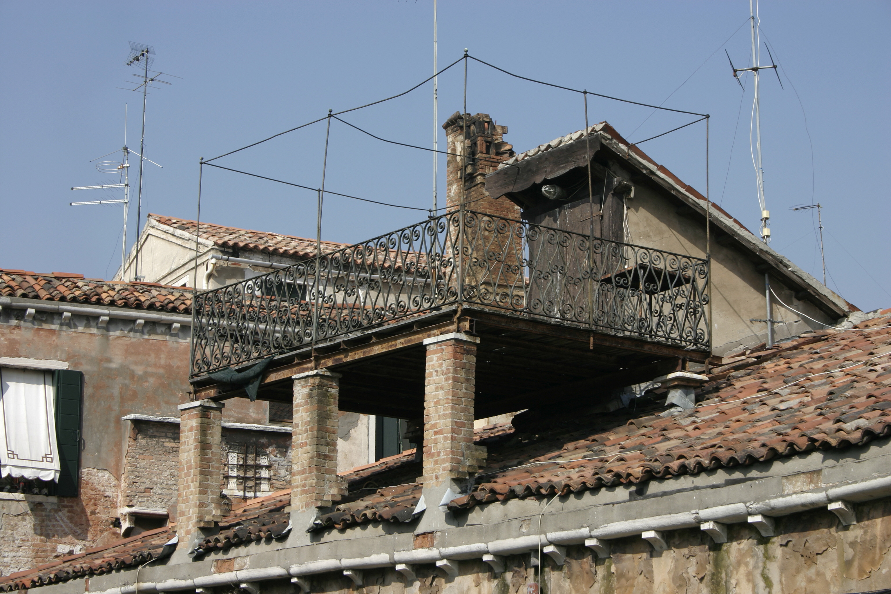 Venice – Altana - Tipical terrace above the roof